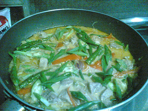 Taken 3 years ago. (8/27/2006) where I cooked Bicol express Bisdak style. Ingon nila lami ko moluto :)